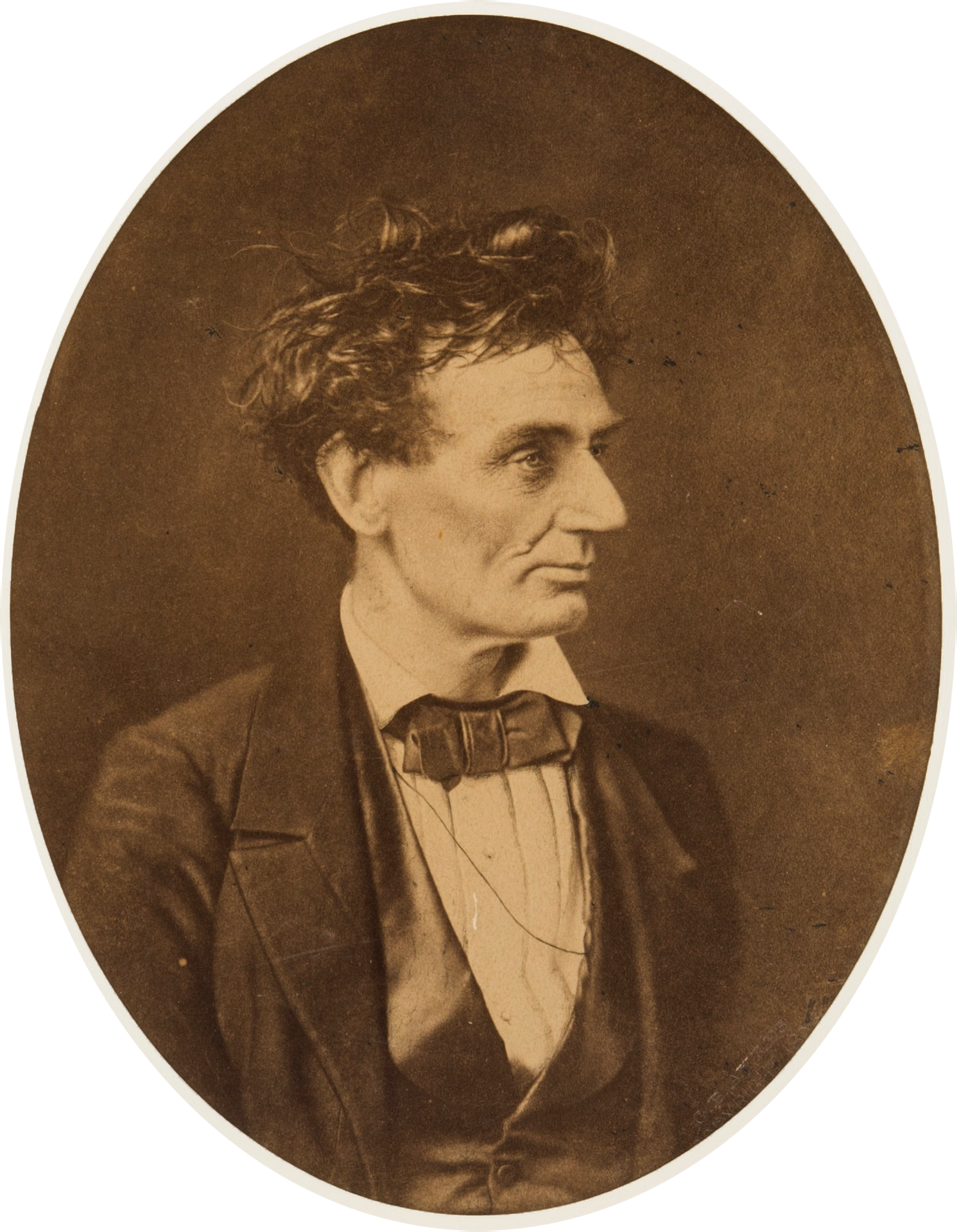 Abraham Lincoln: "Tousled Hair" Albumen Reprint or Copy Image by Ayres